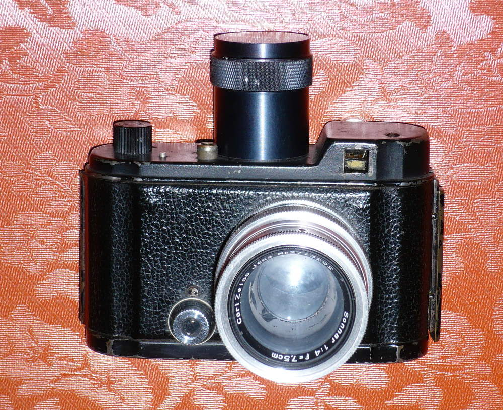 Robot Luftwaffen Eigentum black